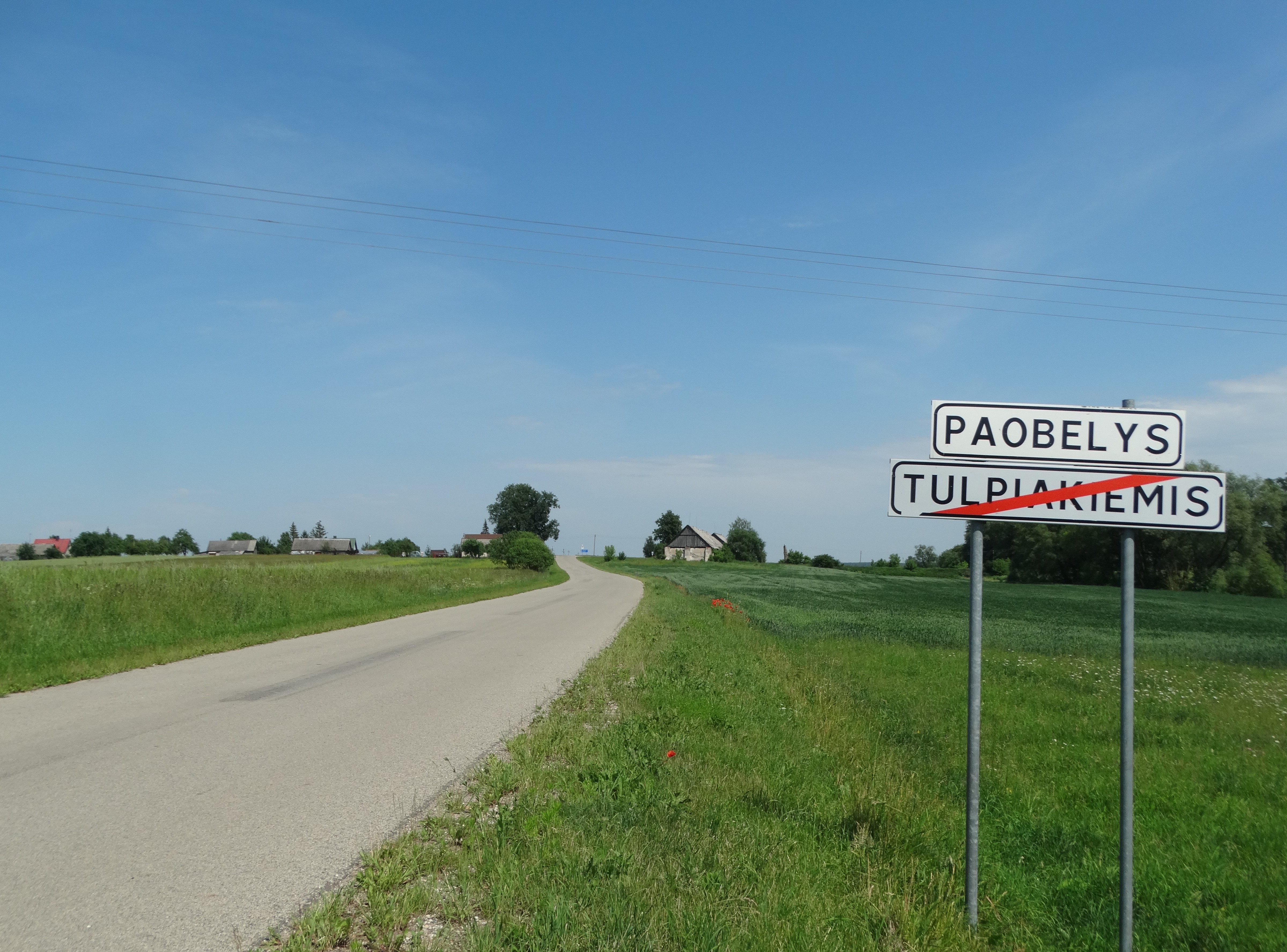 Paobelys, Ukmergė district, Lithuania